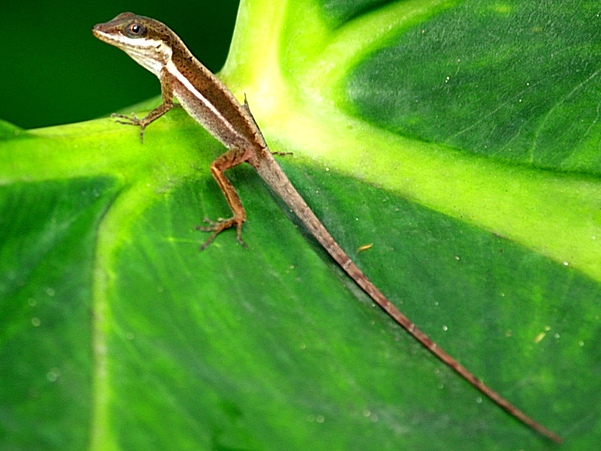 common grass anole (Auratus)